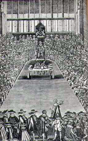 Session of the Long Parliament